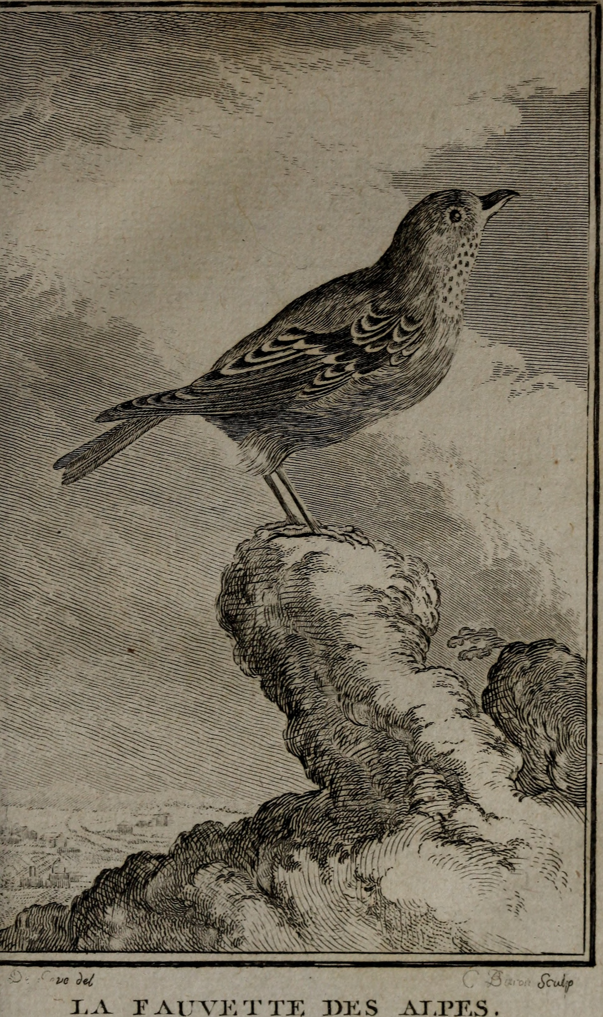 Title: Histoire naturelle des oiseaux Year: 1779 (1770s) Authors: Buffon, Georges Louis Leclerc, comte de, 1707-1788 Subjects: Birds Publisher: Paris, De l'imprimerie royale Text Appearing Before Image: une ligne & demie chacun -, le tube intestinal a dix à onze pouces, de longueur. Quoique cet oiseau habite les montagnes des Alpes, voisines de France & d'talie itiême celles de l'Auvergne & du Dauphiné 5 aucun Auteur n'en a parlé. M. le Marquis de Piolenc a envoyé plusieurs individus à M. Gueneau de Montbeillard, qui ont été tués dans son comté de Mont-fcel, le 18 janvier 1778. Ces oiseaux ne séloignent des hautes montagnes que quand ils y font forcés par labondance des neiges*, au flî ne les connoît-on guère dans les plaines, ils se tiennent communément à terre, où ils courent vite enfilant comme la caille & la perdrix, & non en fautillant comme les autres sauvettes: se pose suffi fur les pierres, mais rarement sur les arbres, ils vont par petites troupes, & ils ont pour se rappeler entre ux un cri semblable à celui de la lavandière, tant que le froid n'est pas bien fort on les trouve dans les champs, & lors ju il devient plus ■ / ri.X./^a Text Appearing After Image: de la Fauvette. %i^ ngoureux, ils se rassemblent dans les prairies humides où il y a de la mousse,& on les voit alors courir sur la glace, leurs dernières ressources ce sont les fontaines chaudes & les ruisseaux d'eau vive 3 on les y rencontre souvent en cherchant des bécaflînes*, ils ne font pas bien farouches, & cependant ils sont difficiles à tuer, surtout au vol»